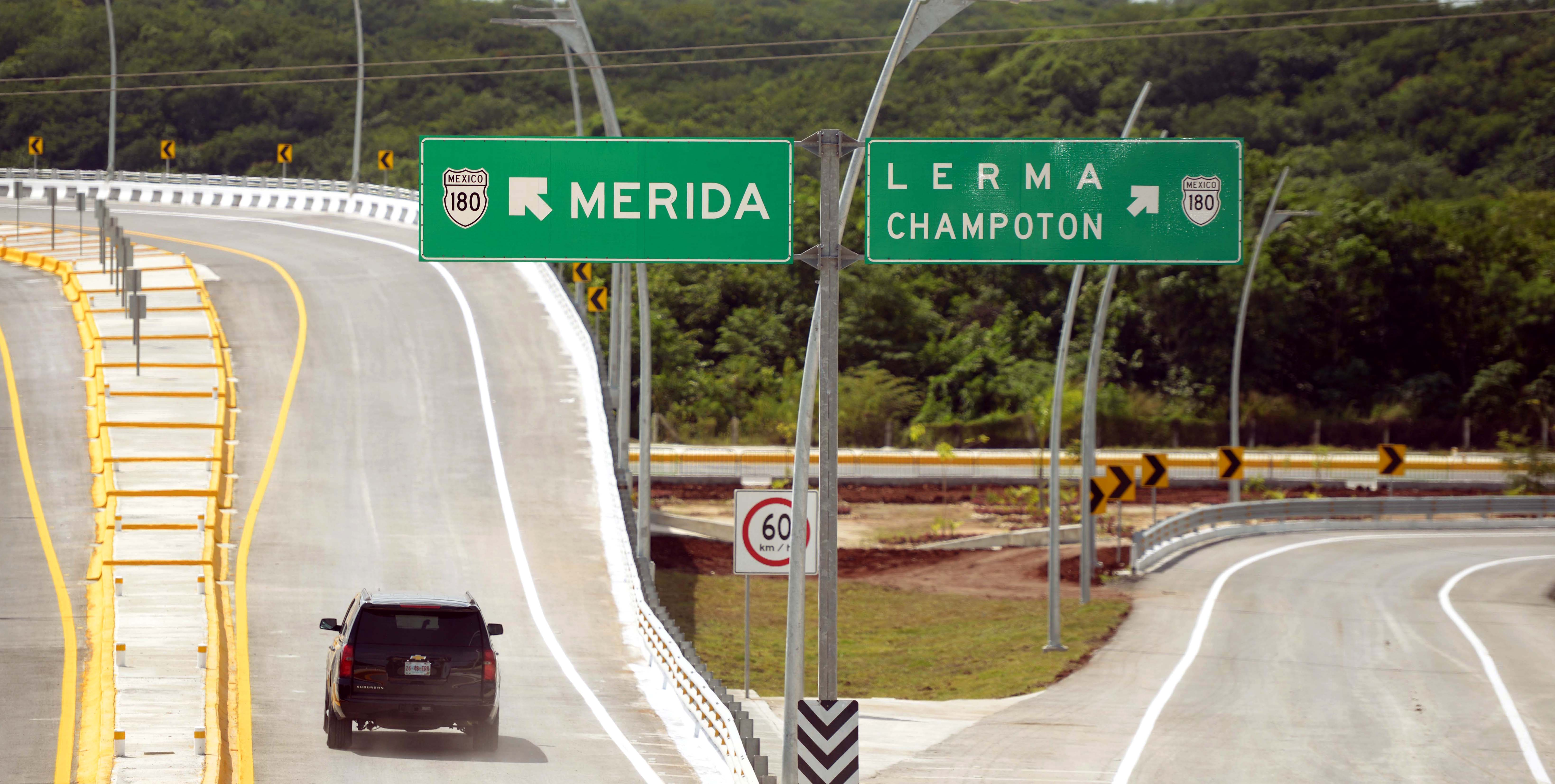 Entrega de la ampliación y modernización del Periférico Pablo García y Montilla. Estado de Campeche. 16 de octubre de 2015.